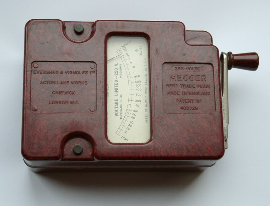 A Megger tester issued to my grandfather, a driver/mechanic in the Grenadier Guards during World War II. It was held within a custom leather pouch.